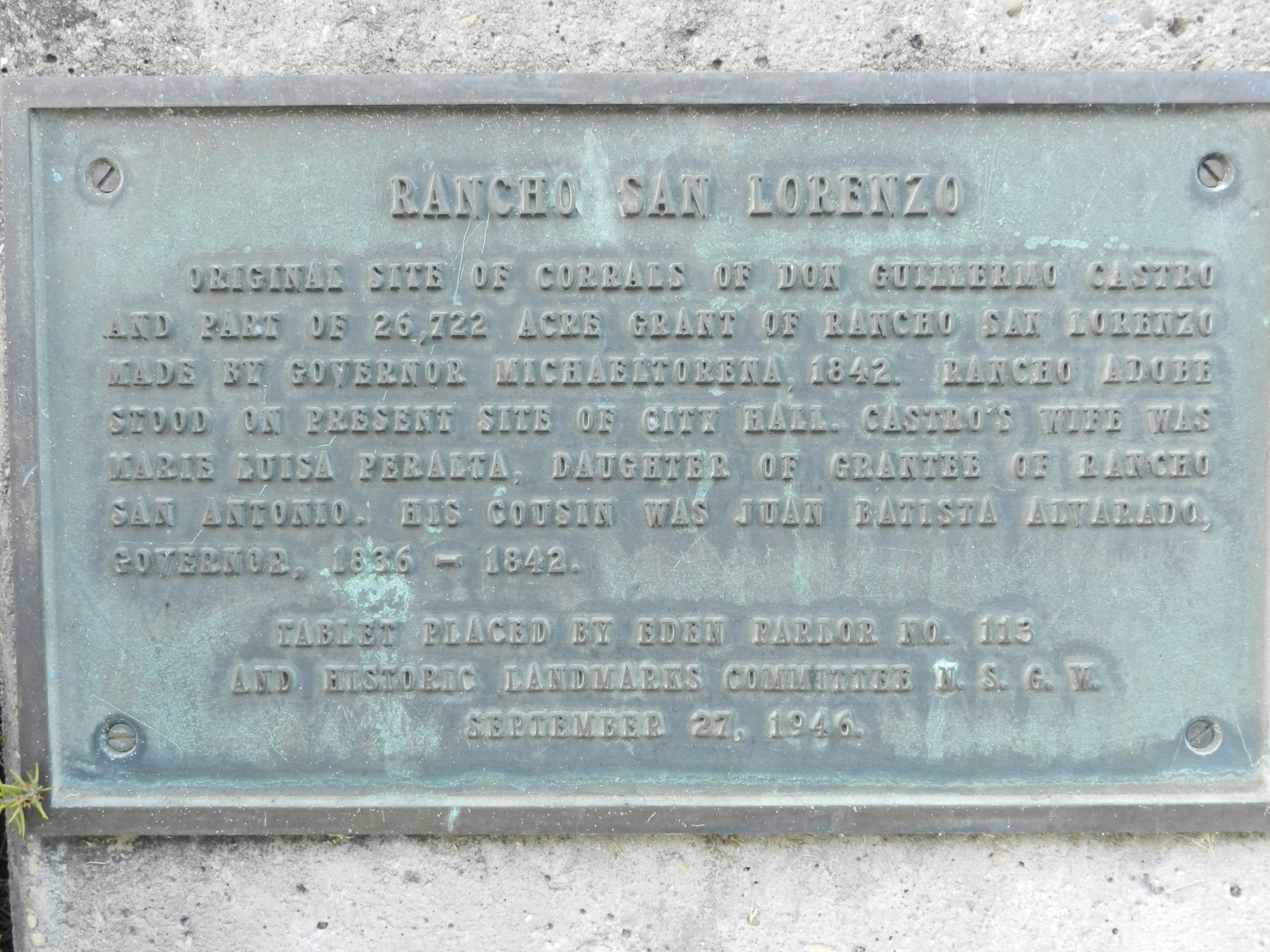 Hayward City Hall, commemorative plaque for Spanish period, at Alex Giualini Plaza